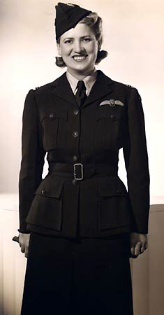 Jacqueline "Jackie" Cochran held more speed, altitude and distance records than any other male or female pilot in aviation history at the time of her death Aug. 10, 1980.